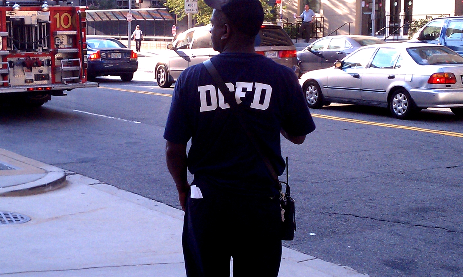 A firefighter with the District of Columbia Fire and Emergency Medical Services Department responding to an emergency call outside the L'Enfant Plaza hotel and office building complex in Washington, D.C., in the United States.